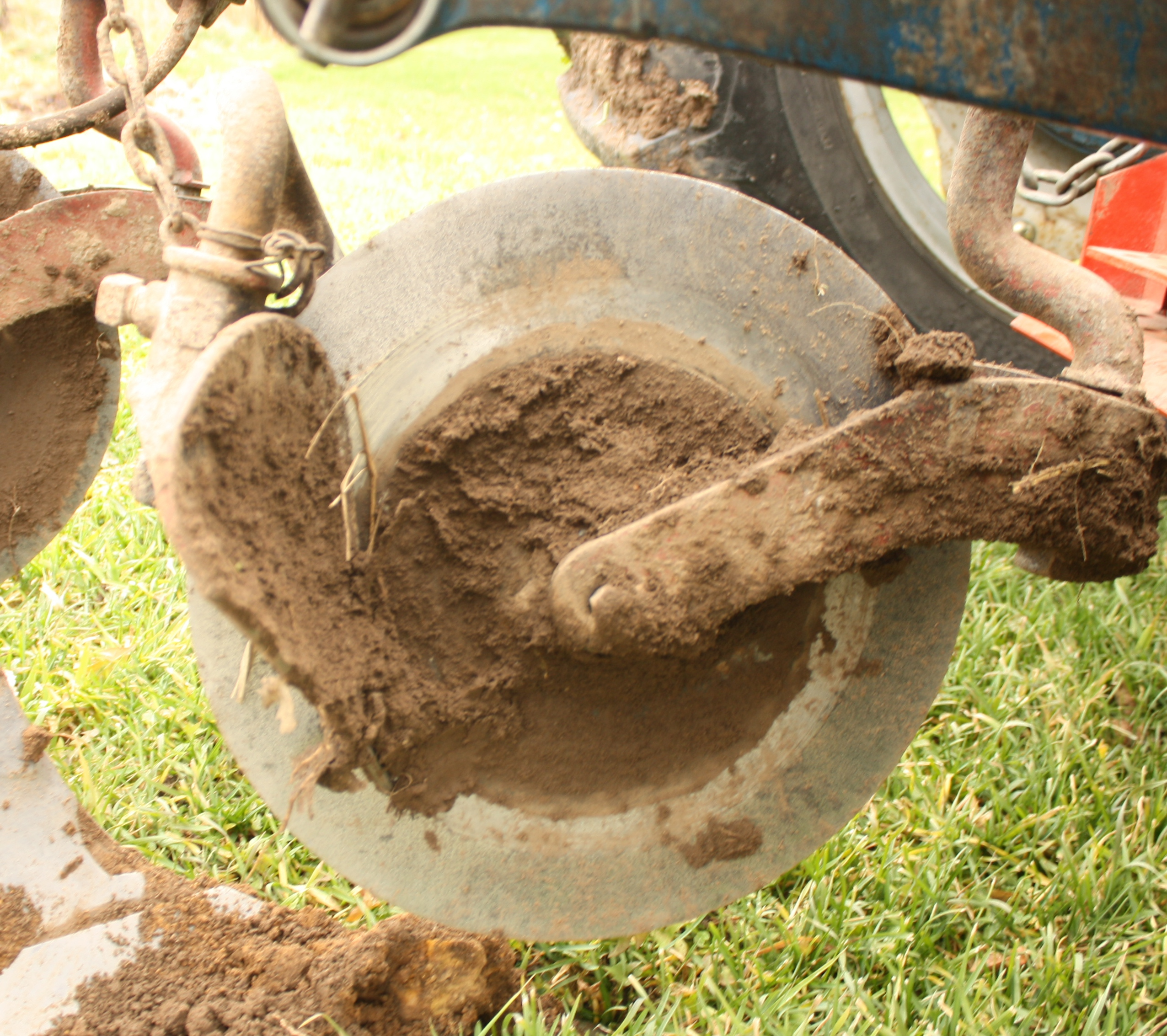 A Coulter (agriculture) (the disk) on a Ferguson plow full of soil between passes. The coulter is equipped with an rare optional jointer (left) which flips over soil after the coulter has passed.